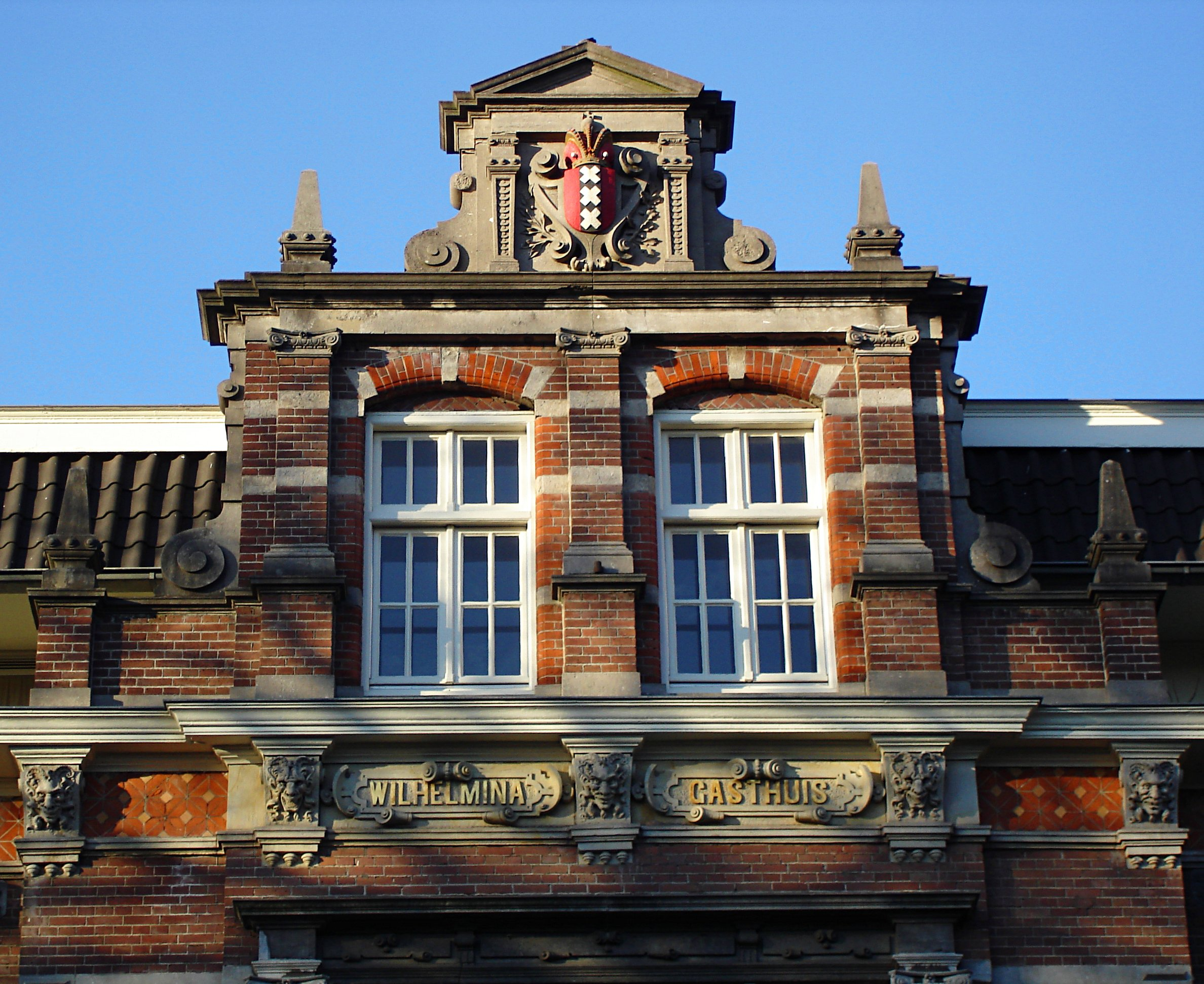 Detail of façade, entrance to the former Wilhelmina Gasthuis, Helmersbuurt, Oud-West, Amsterdam